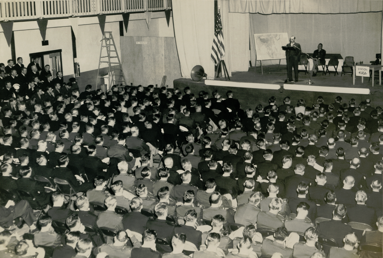 Army / Navy Civil Affairs Staging Area (CASA) officers at an assembly, in front of a stage with a large map of Asia, listen to a civilian speaker.